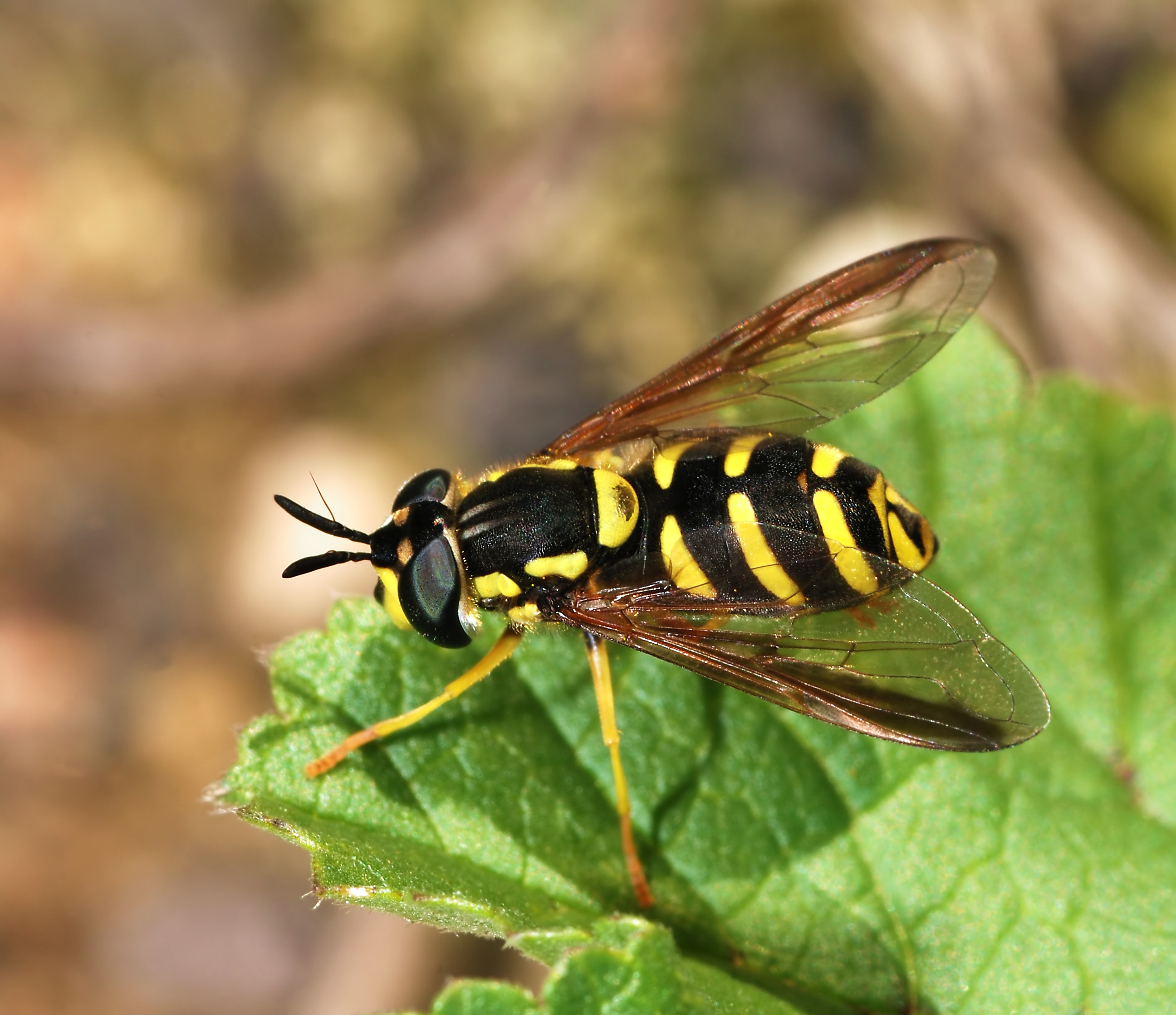 A female hoverfly (Chrysotoxum intermedium). Camera: Nikon D80 with Tokina 100mm macro and extension ring. Exposure: aperture priority, f/16, 1/60, ISO 100.